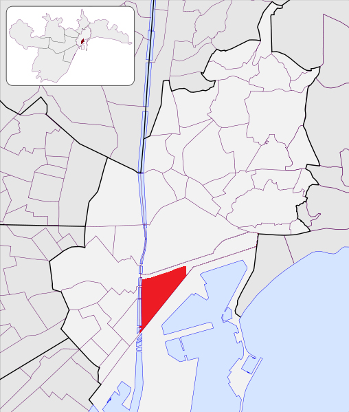 Soho locator map, Málaga, Spain.